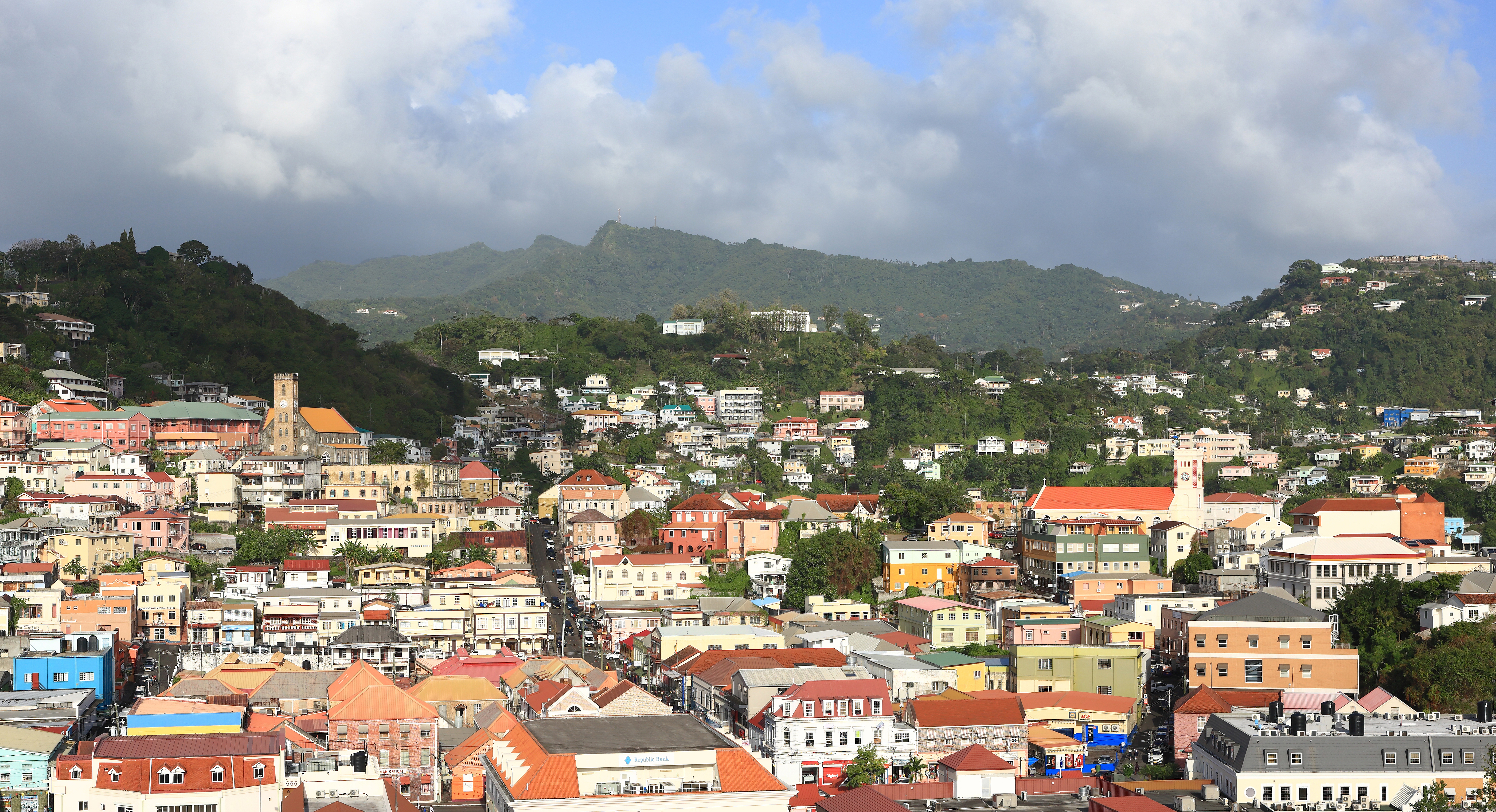 Late afternoon view of St. George's, Grenada, with the Catholic Immaculate Conception Cathedral to the left, and Anglican St. George's Parish Church to the right.